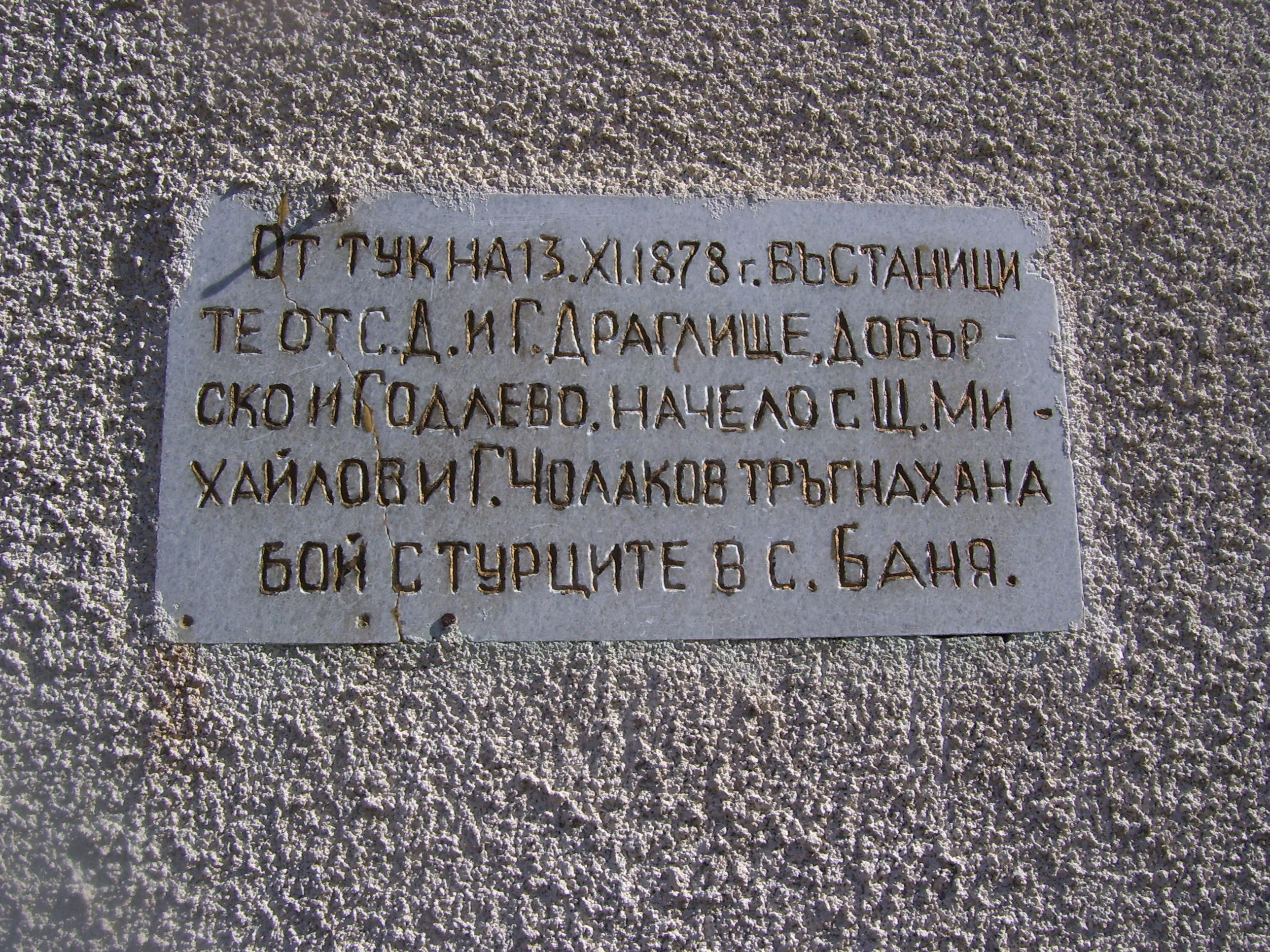 Memorial plaque in village Dolno Draglishte, Bulgaria